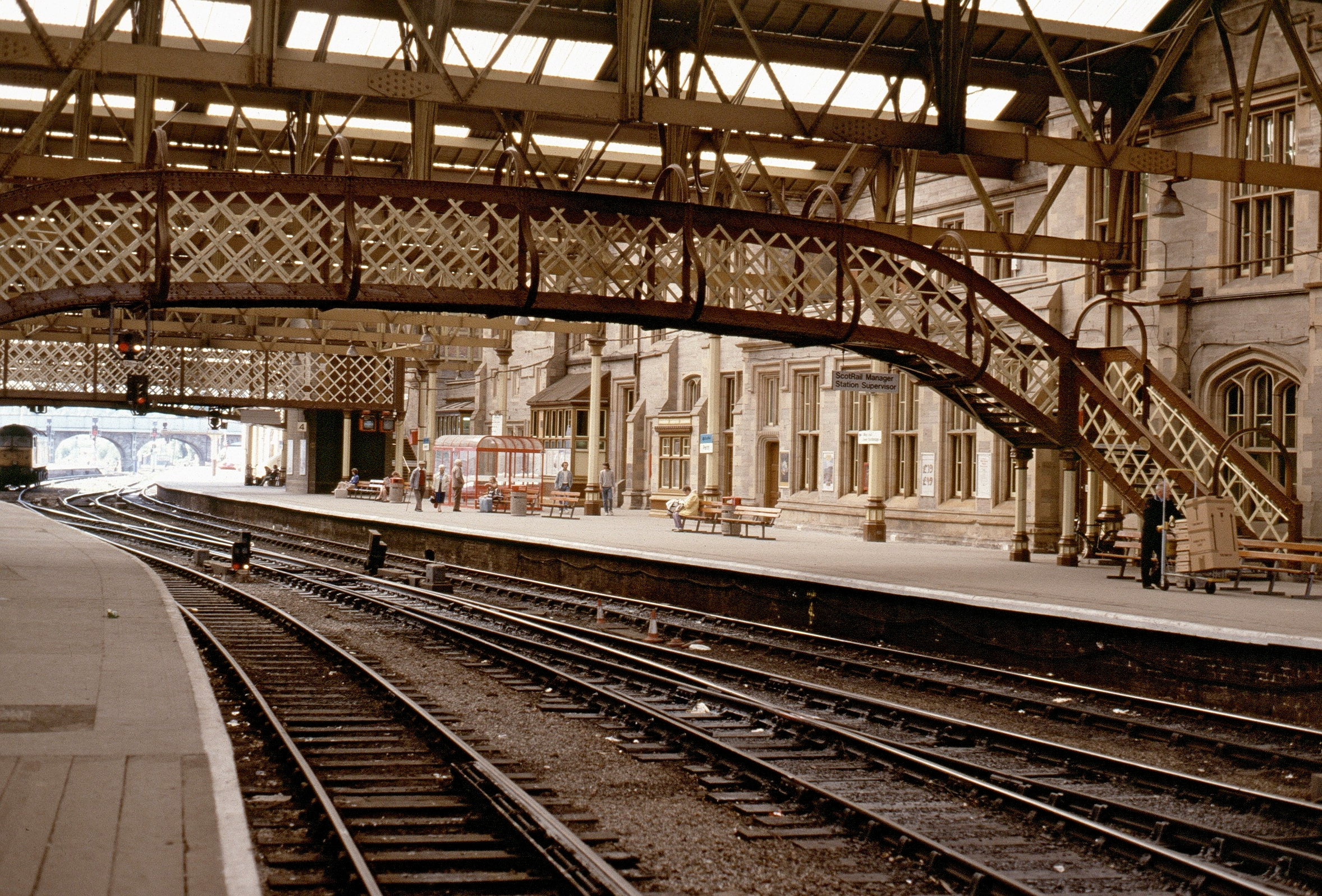 Perth (Scotland) station